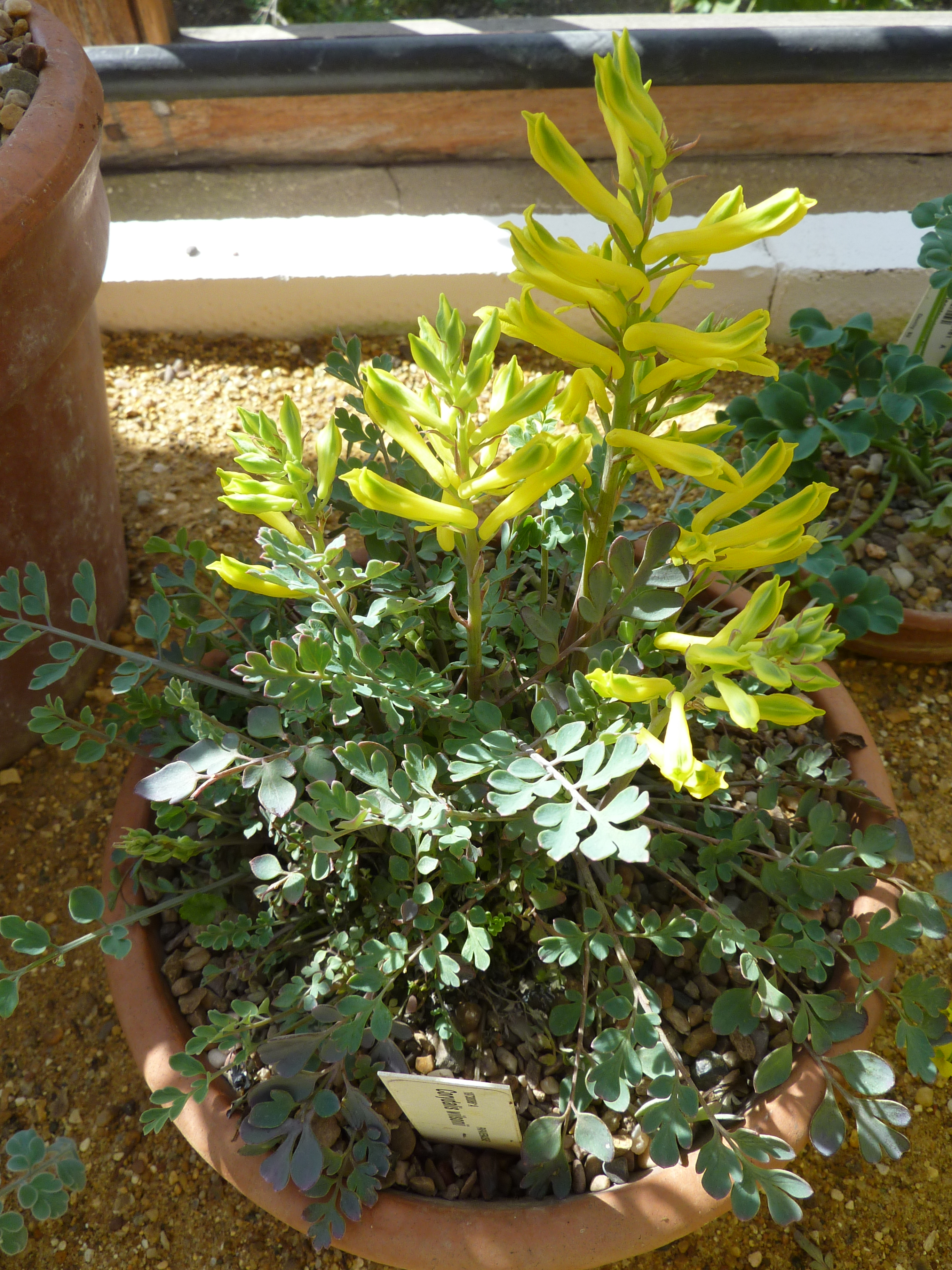 Taken in the Cambridge University Botanic Garden.